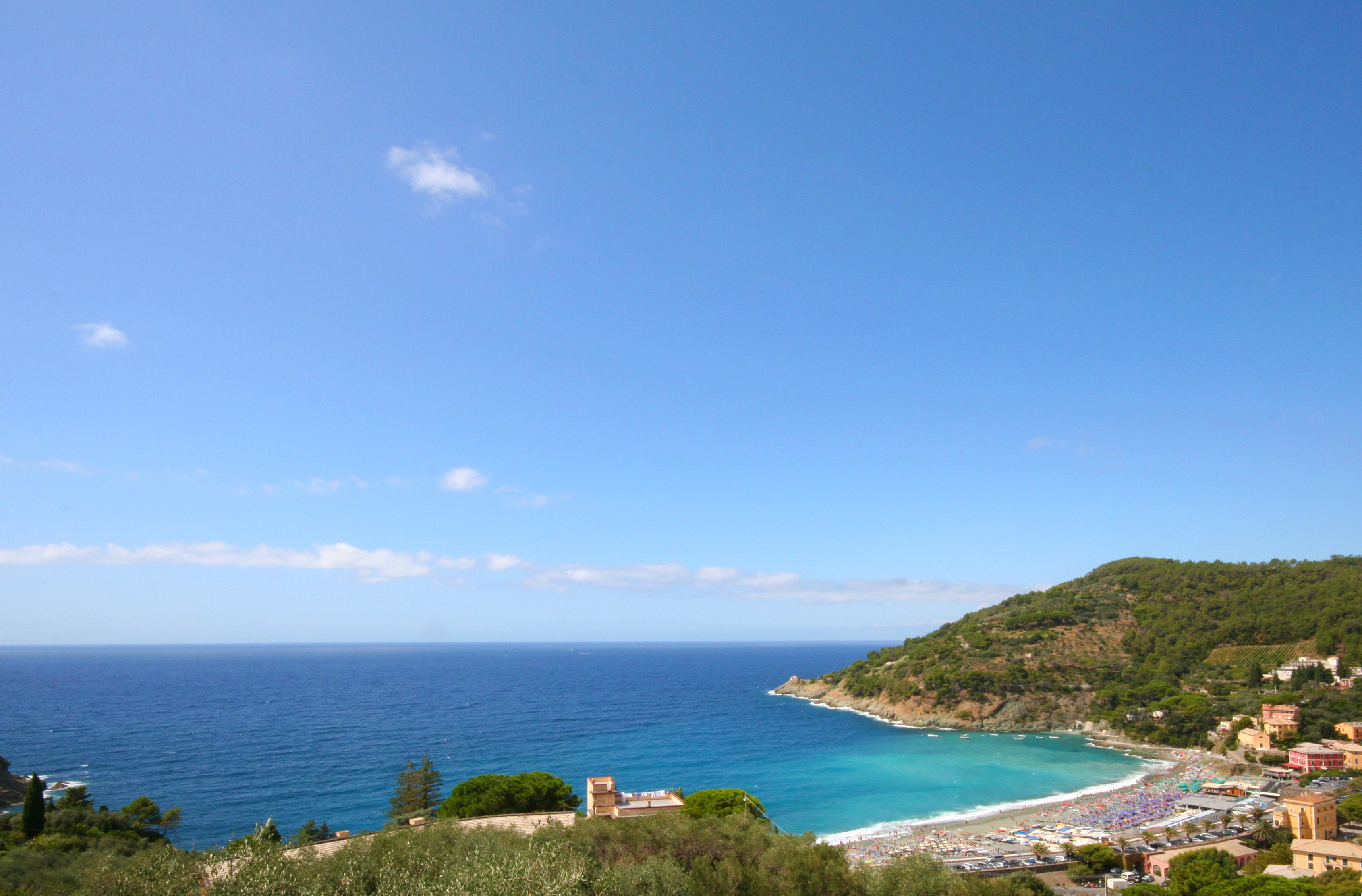 A WONDERFUL PLACE; BONASSOLA, SP, ITALY